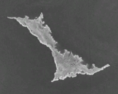 Cat Island in 1998